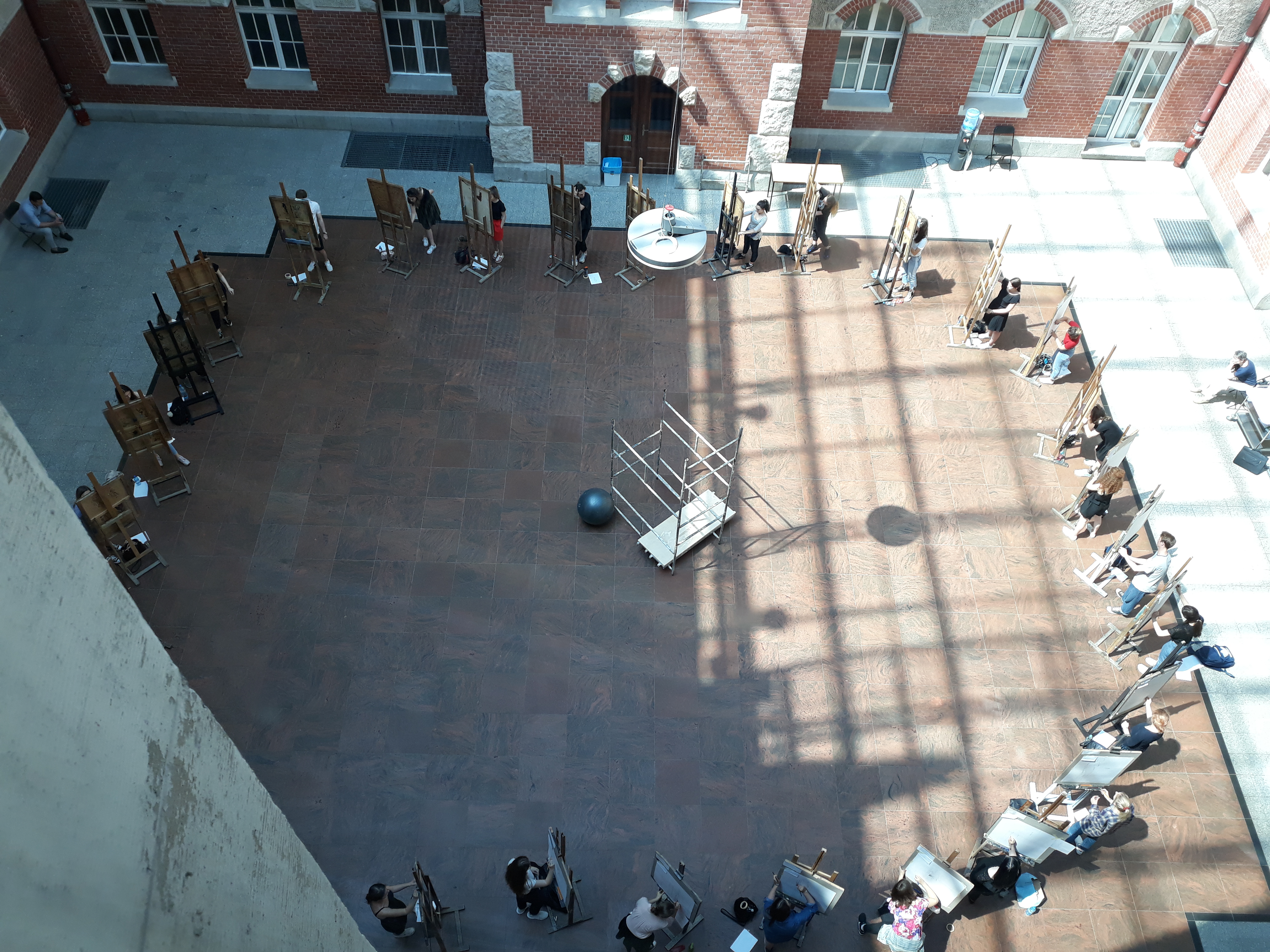 Visual perspective-taking: architecture students draw a ball and scaffolding. Everyone of them sees its shapes from a different perspective. Courtyard of D. G. Fahrenheit, Gdansk University of Technology